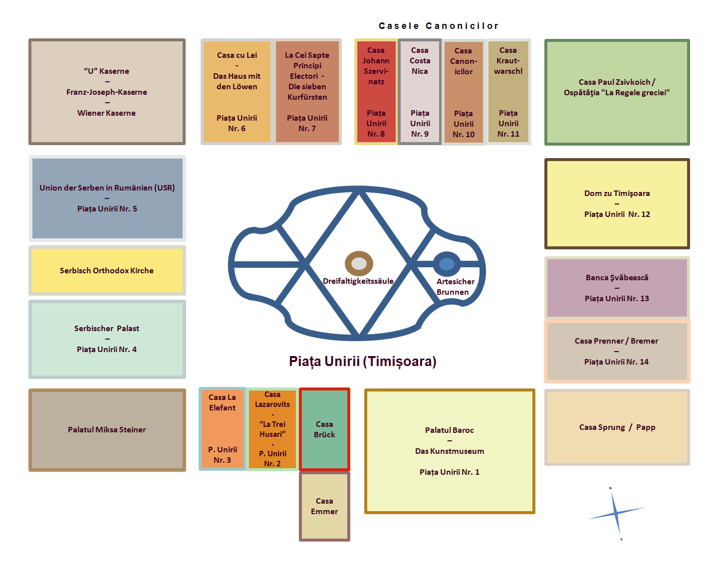 Schematic floor plan of Piața Unirii. The colours used follow the colour-scheme applied to the buildings close to publishing date.